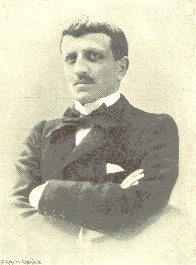 Gustave Doret Image taken from: Title: "Die Schweiz im neunzehnten Jahrhundert. Herausgegeben von schweizerischen Schriftstellern unter Leitung von P. Seippel" Author: SEIPPEL, Paul. Shelfmark: "British Library HMNTS 9305.h.2." Volume: 02 Page: 611 Place of Publishing: Lausanne Date of Publishing: 1899 Issuance: monographic Identifier: 003330970 Explore: Find this item in the British Library catalogue, 'Explore'. Download the PDF for this book (volume: 02) Image found on book scan 611 (NB not necessarily a page number) Download the OCR-derived text for this volume: (plain text) or (json) Click here to see all the illustrations in this book and click here to browse other illustrations published in books in the same year.